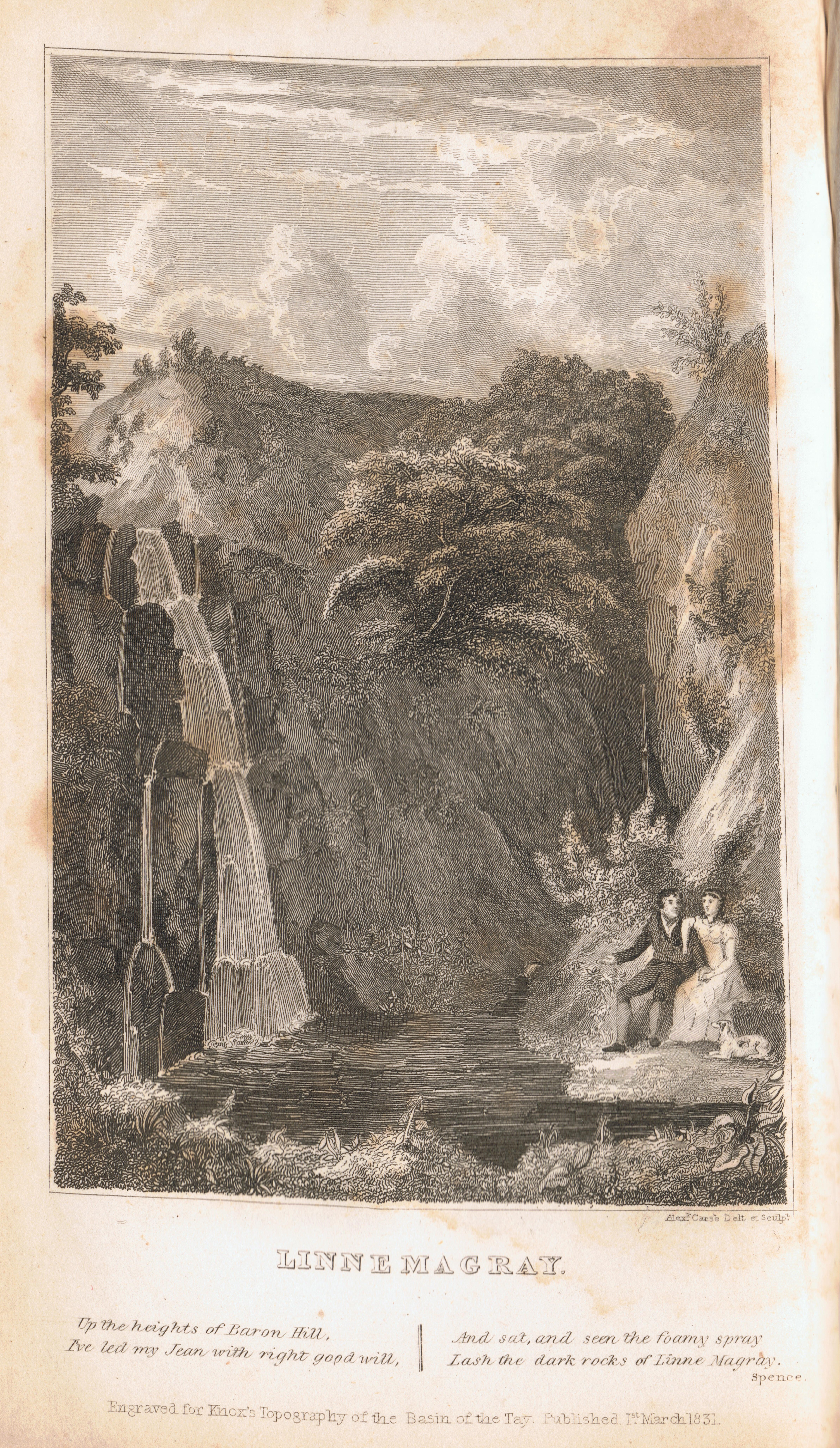 Scan (by R. de Salis, Rodolph (talk) 23:28, 15 December 2014 (UTC)), of Linne Magray, drawn and engraved by Alexander Carse, with Charles Spence verse, 1831.